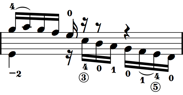 Musical score example of guitar fingering / string numbers in stave notation.